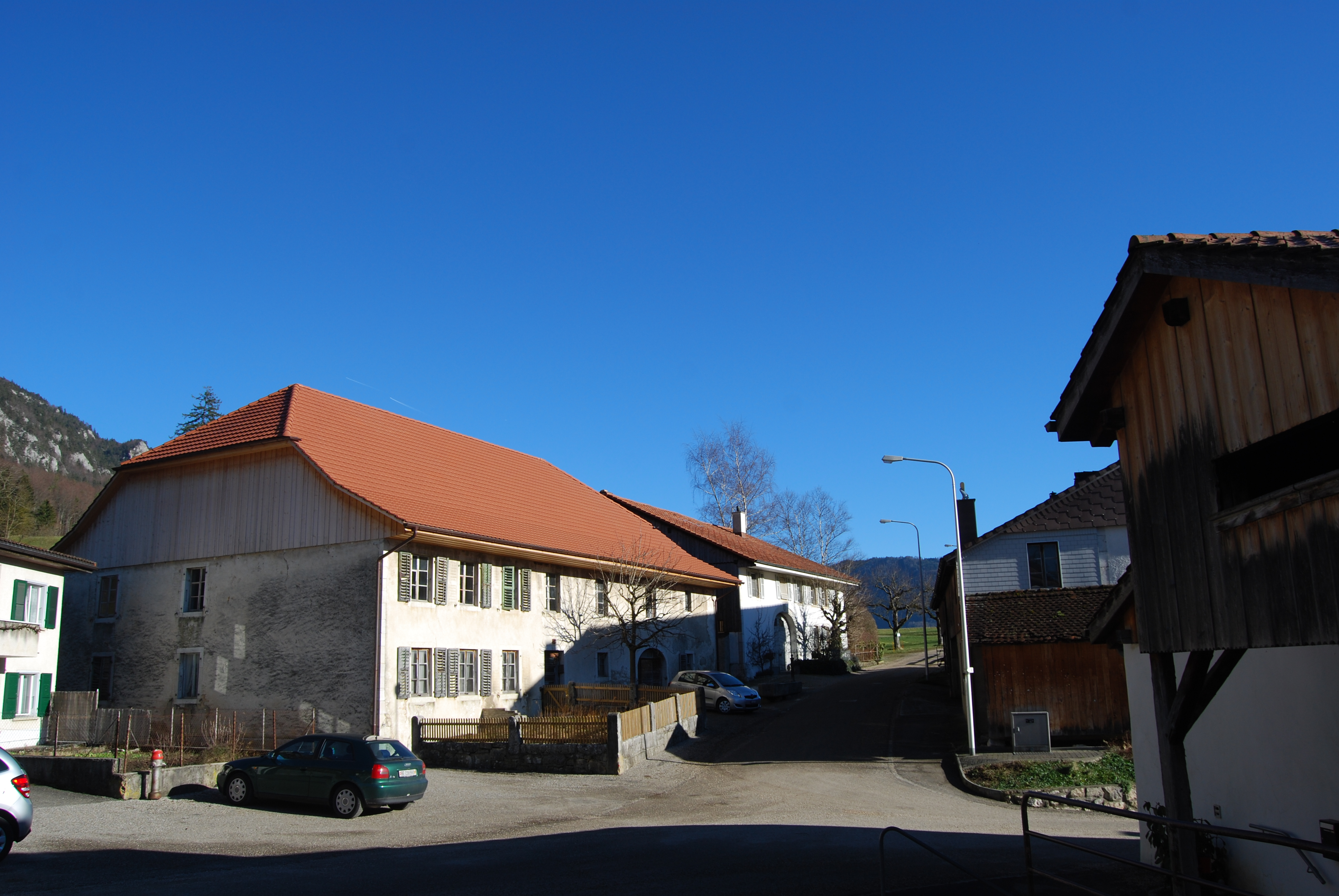 Belprahon, canton of Bern, SwitzerlandEsperanto: Belprahon, Kantono Berno, Svislando